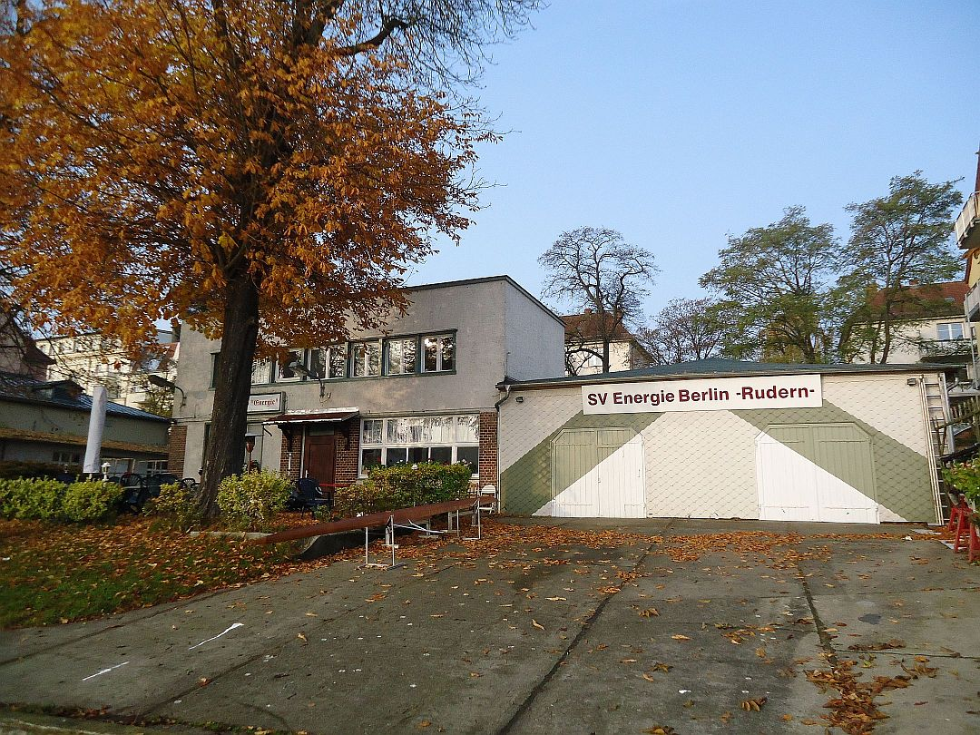 Boathouse of rowing club SV Energie Berlin (Abteilung Rudern)